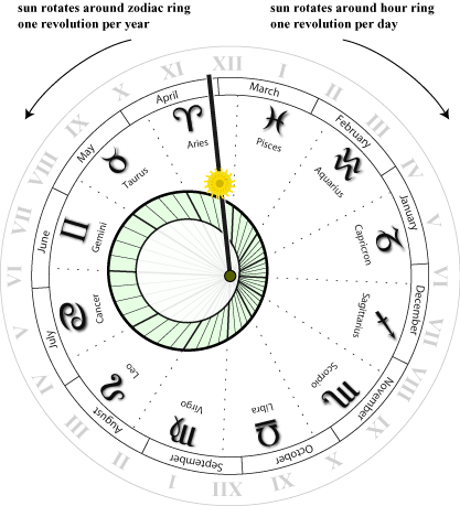 Original summary: "I drew this diagram of the zodiac scale used by astronomical clocks in Illustrator".